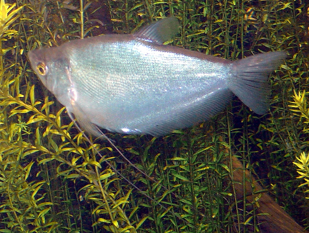 Trichogaster microlepis